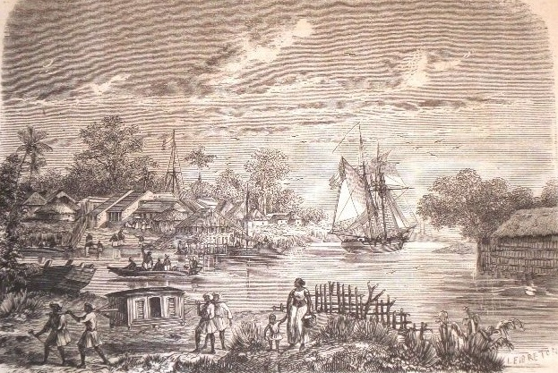 Yanaon (now Yanam) a town located in the Godavari River delta. Yanaon was one of the five territories of French India until it was incorporated into India in 1956. Engraving by Louis Le Breton (1818-1866) published in a French magazine in 1857.